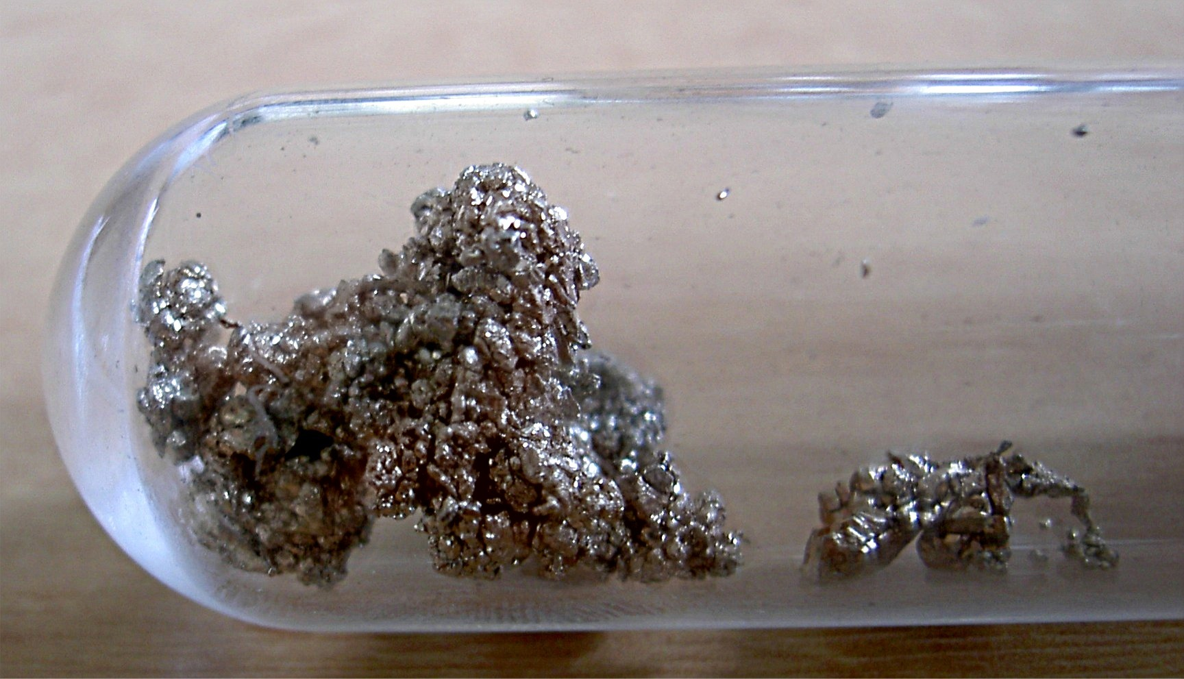 Pure strontium in protective argon gas atmosphere.